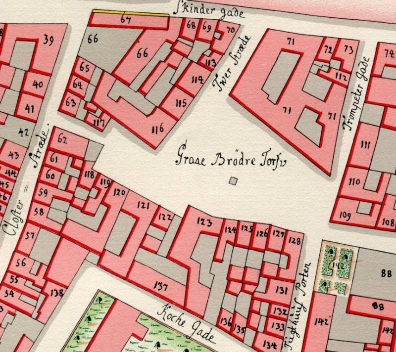 Gråbrødretorv on Gedde's district map of Copenhagen, Denmark